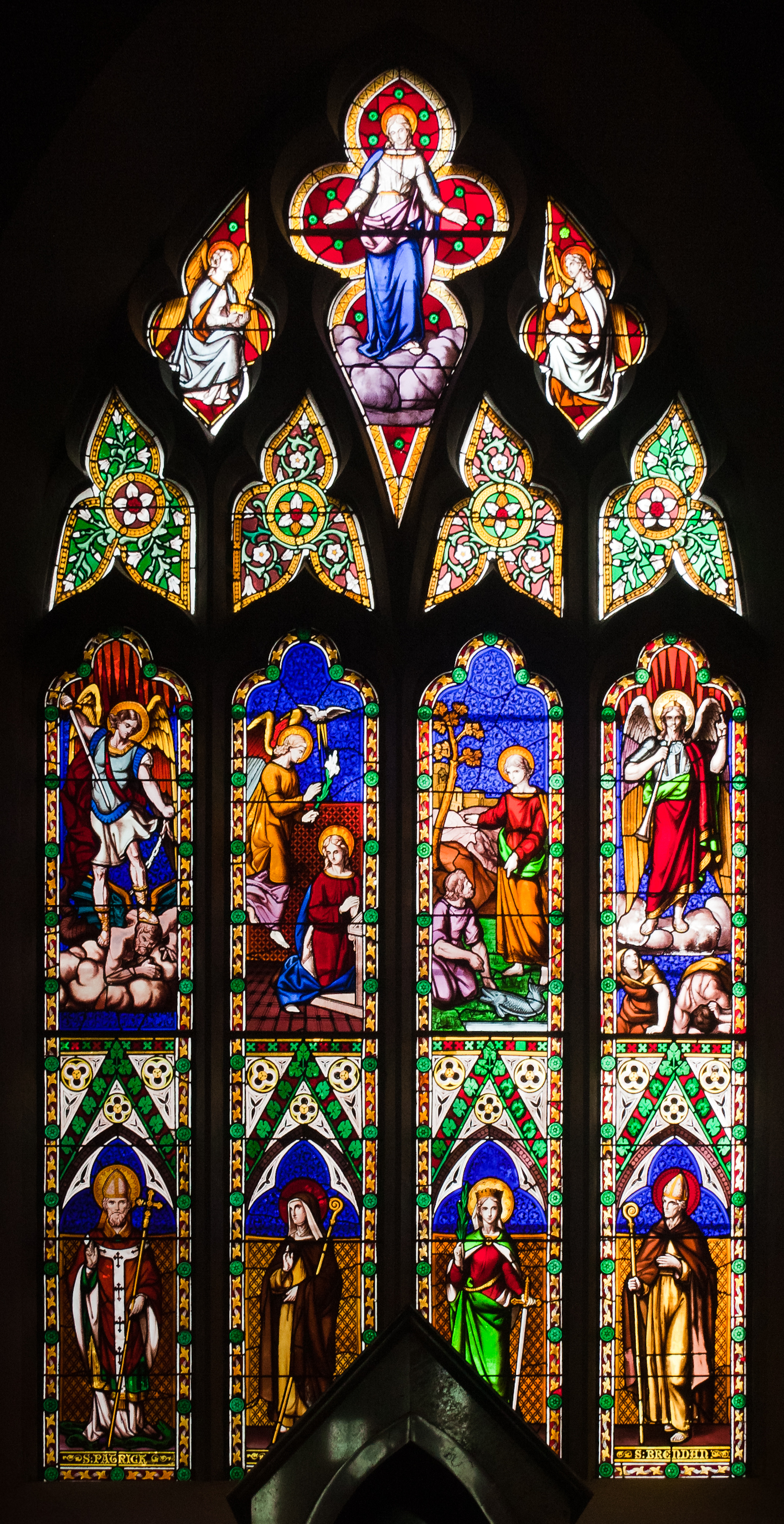 East window behind the altar by Frederick Settle Barff (1823–1886), depicting the Assumption (top light), the archangels Michael, Gabriel, Raphael, and an angel blowing the last trumpet (upper row), and the saints Patrick, Bridget, Dymphna, and Brendan (lower row). The tracery matches that of the east window of Kilconnell Friary (see small picture). Frederick Settle Barff (1822–1866) Description scientist and chemiststained-glass artist / chemistDate of birth/death 6 October 1822 11 August 1866 Location of birth/death Hackney BuckinghamWork period1852–1864Work location Liverpool, DublinAuthority control : Q5498716 VIAF: 315566424 GND: 1069802859 creator QS:P170,Q5498716